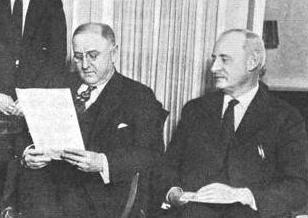 U.S. Attorney General Harry Daugherty (left), with Special Assistant to the Attorney General James A. Fowler, looking over a file for a case involving a government injunction against striking railroad workers in 1922.